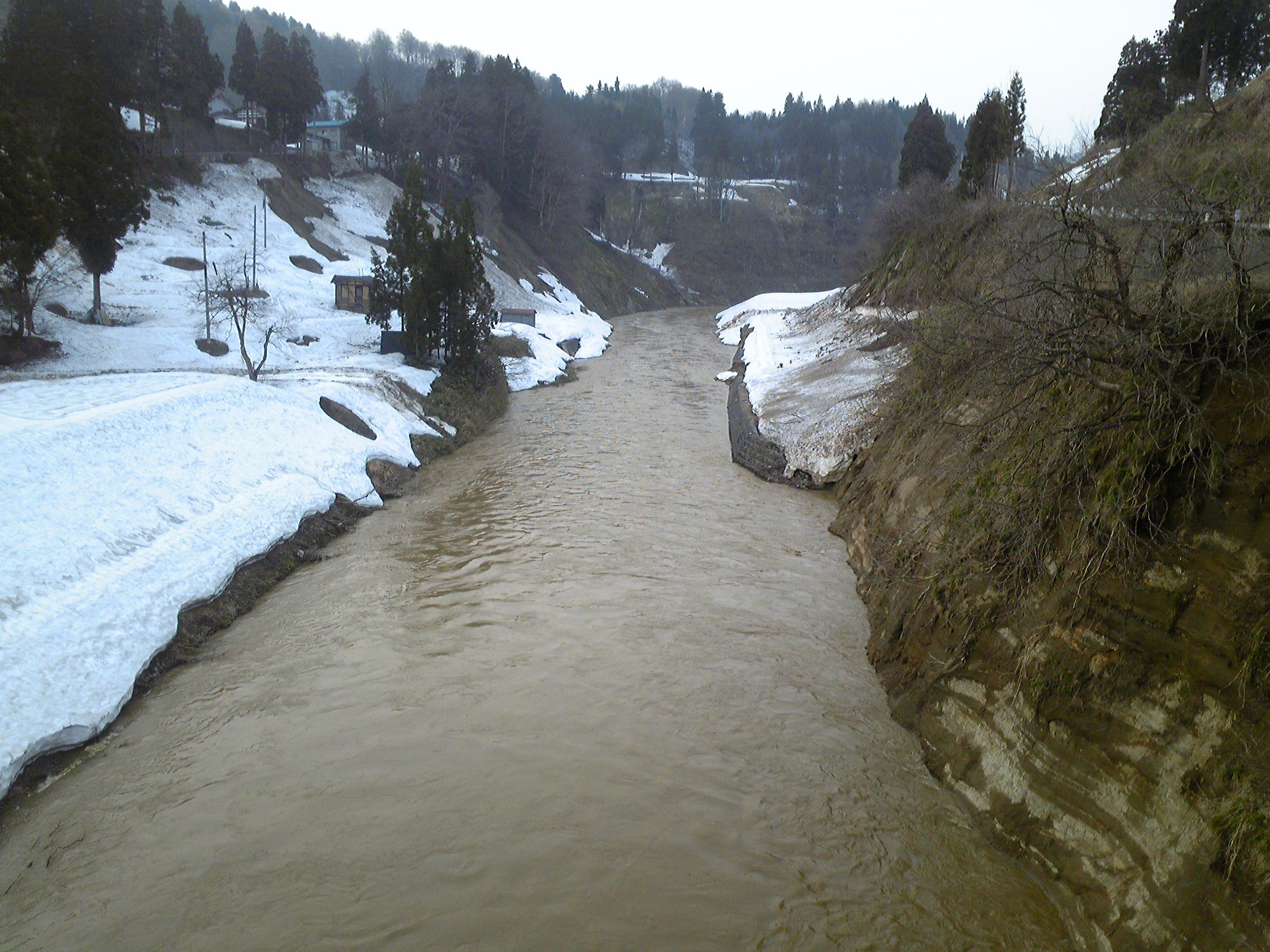 Shibumi River in Niigata Japan.